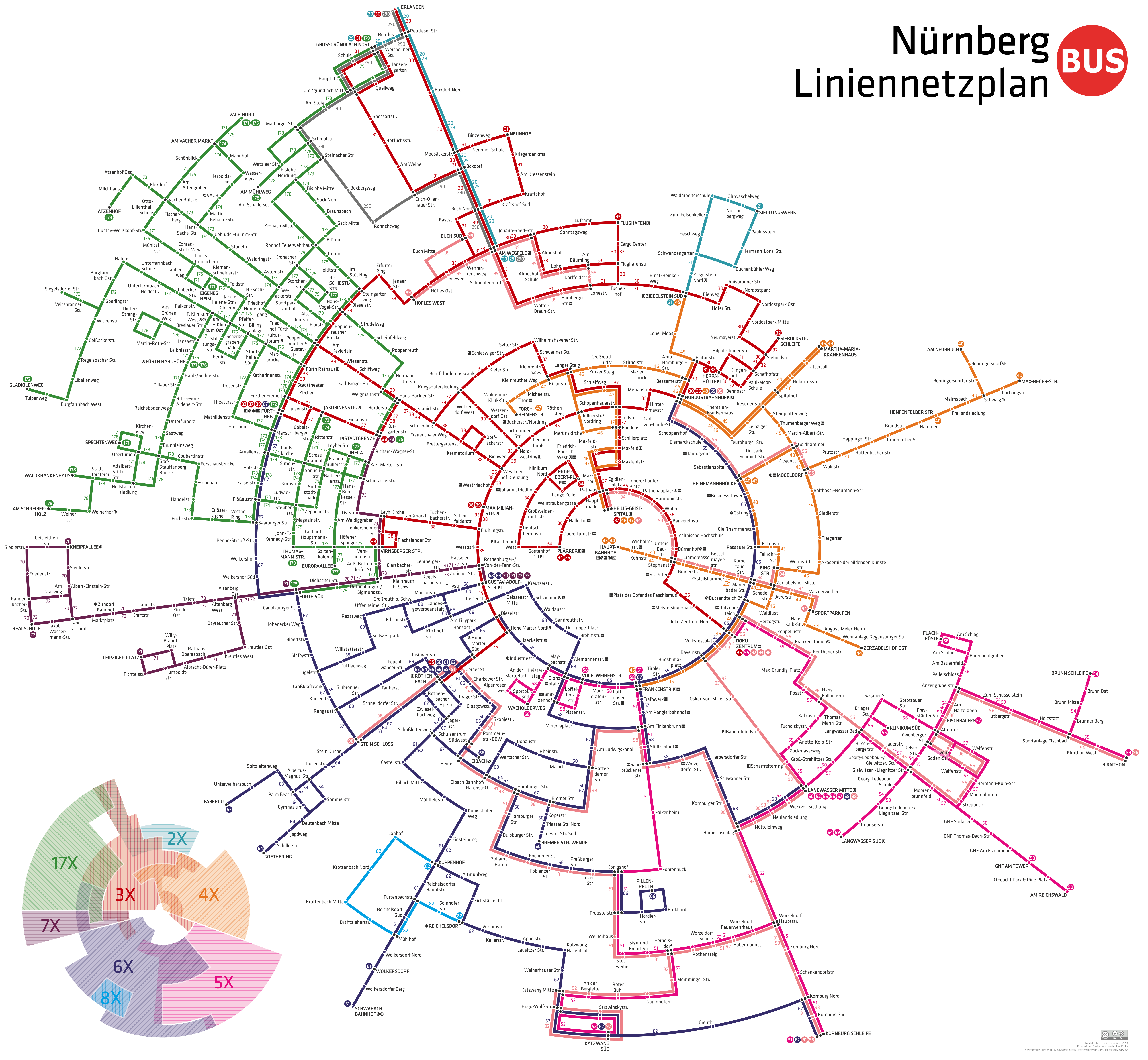 Nuremberg bus network